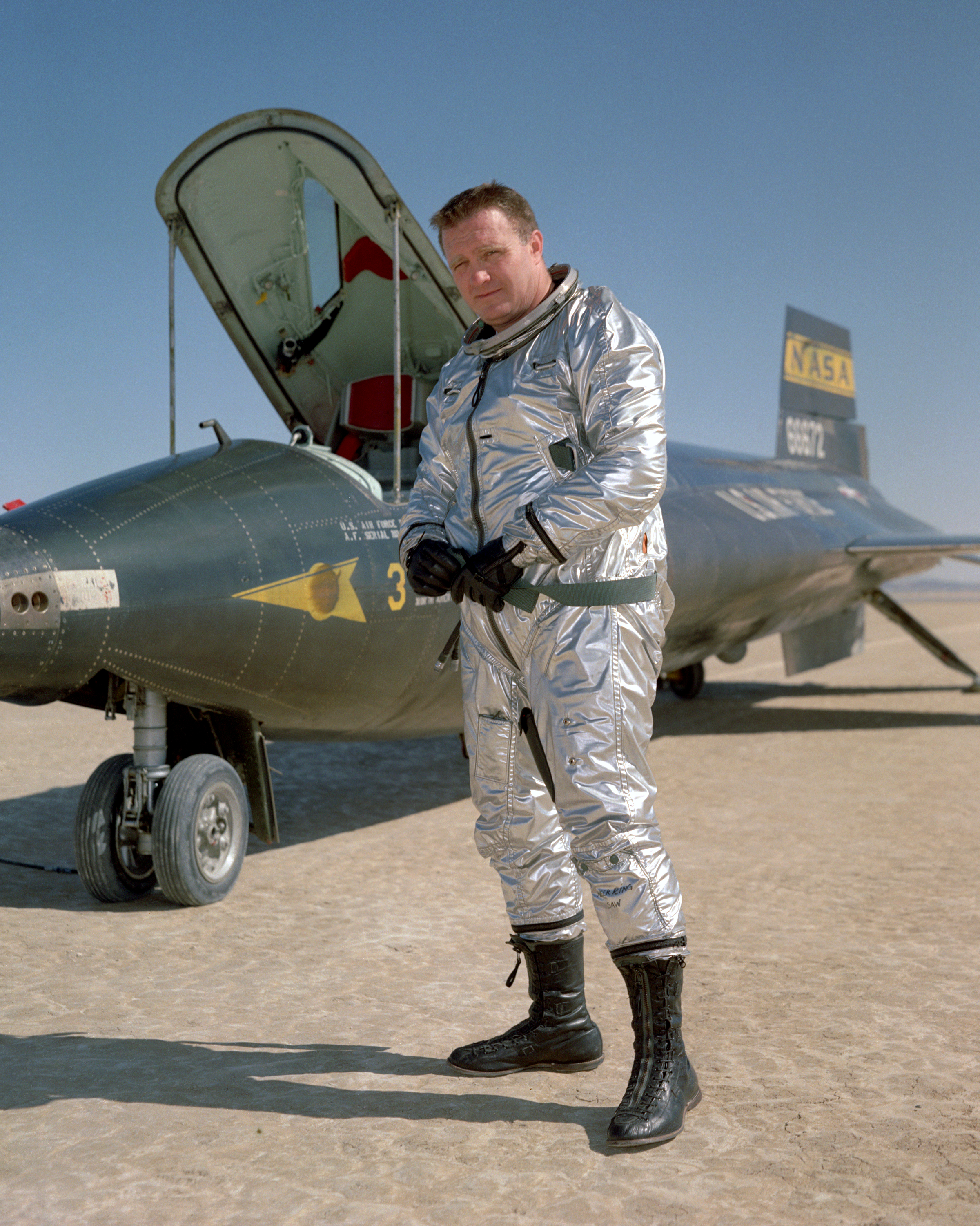 Test pilot John B. McKay after X-15 flight #3-27-44